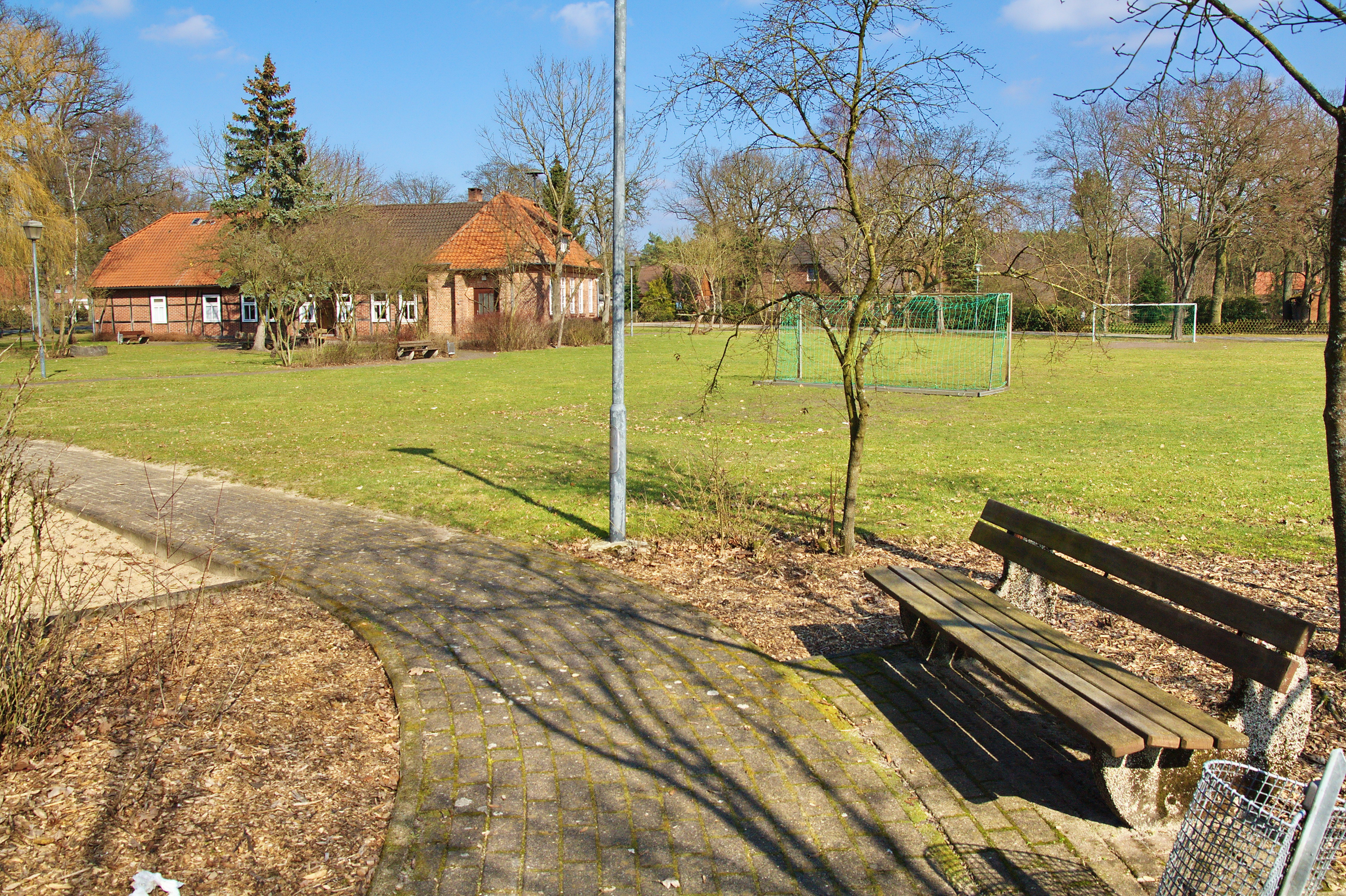 Village hall in the middle of Stedden (Winsen)), Lower Saxony, Germany